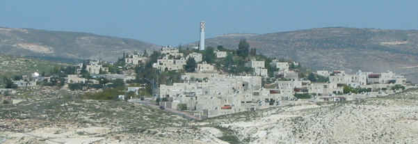 Maaleh Michmas from adjacent hill